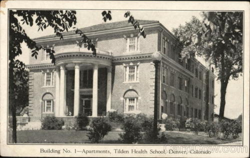 Patients Apartments Building, 3279 Grove Street, Denver, Colorado. Part of the Tilden School for Teaching Health